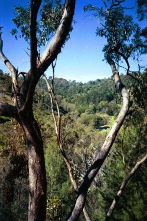 View of Brownhill Creek, South Aust. , from the hillside between the bridge over Brownhill Creek, and Old Belair Road, looking eastwards, up the creek valley. Brownhill is on the left, and Belair National Park is over the ridgetop to the right.